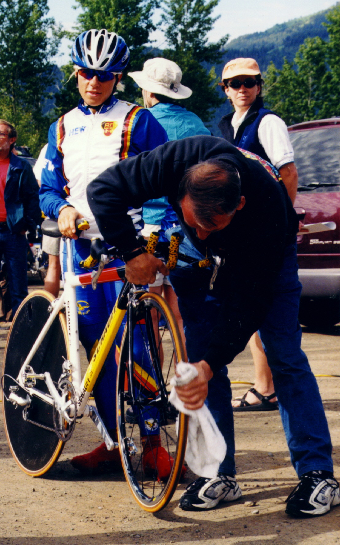 Trixi Worrack looks on while an official with the German National Women's Cycling Team cleans the tires on her bike in preparation for Worrack's run in the Sun Valley Time Trial during the 2001 Women's Challenge bicycle stage race.